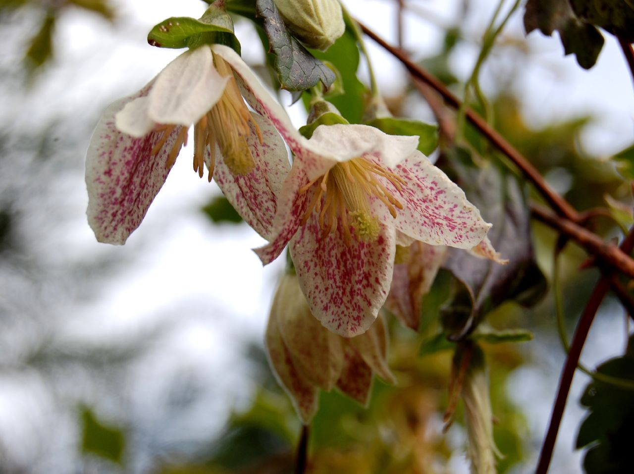 Clematis cirrhosa. These were flowering all through January and February and are still going strong. They look too frail to survive the Highlands weather, but in a sheltered spot they are thriving